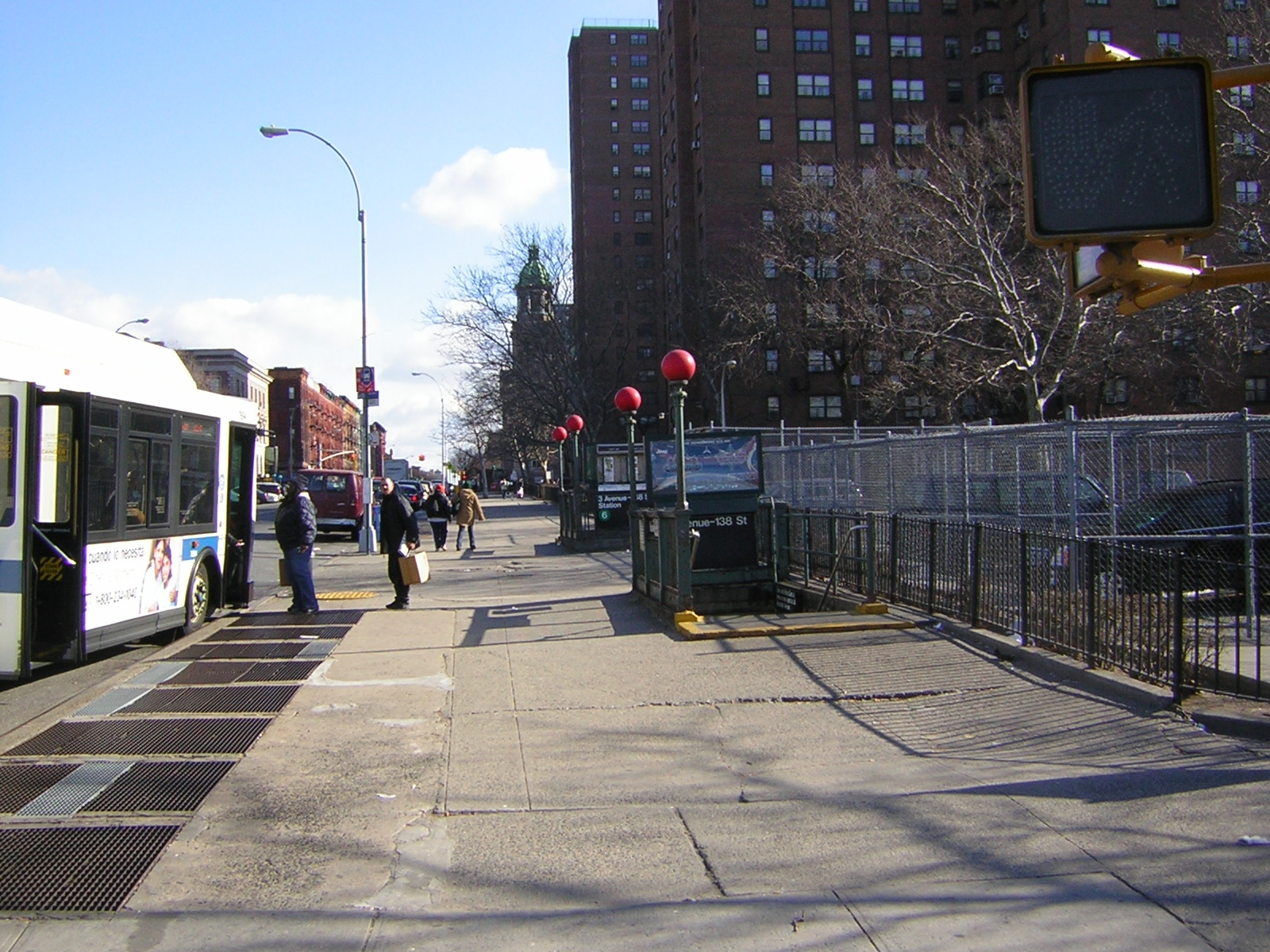 Poor picture looking east at street level exit of Third Avenue–138th Street on a mostly sunny winter afternoon. Mitchell Houses, background right.